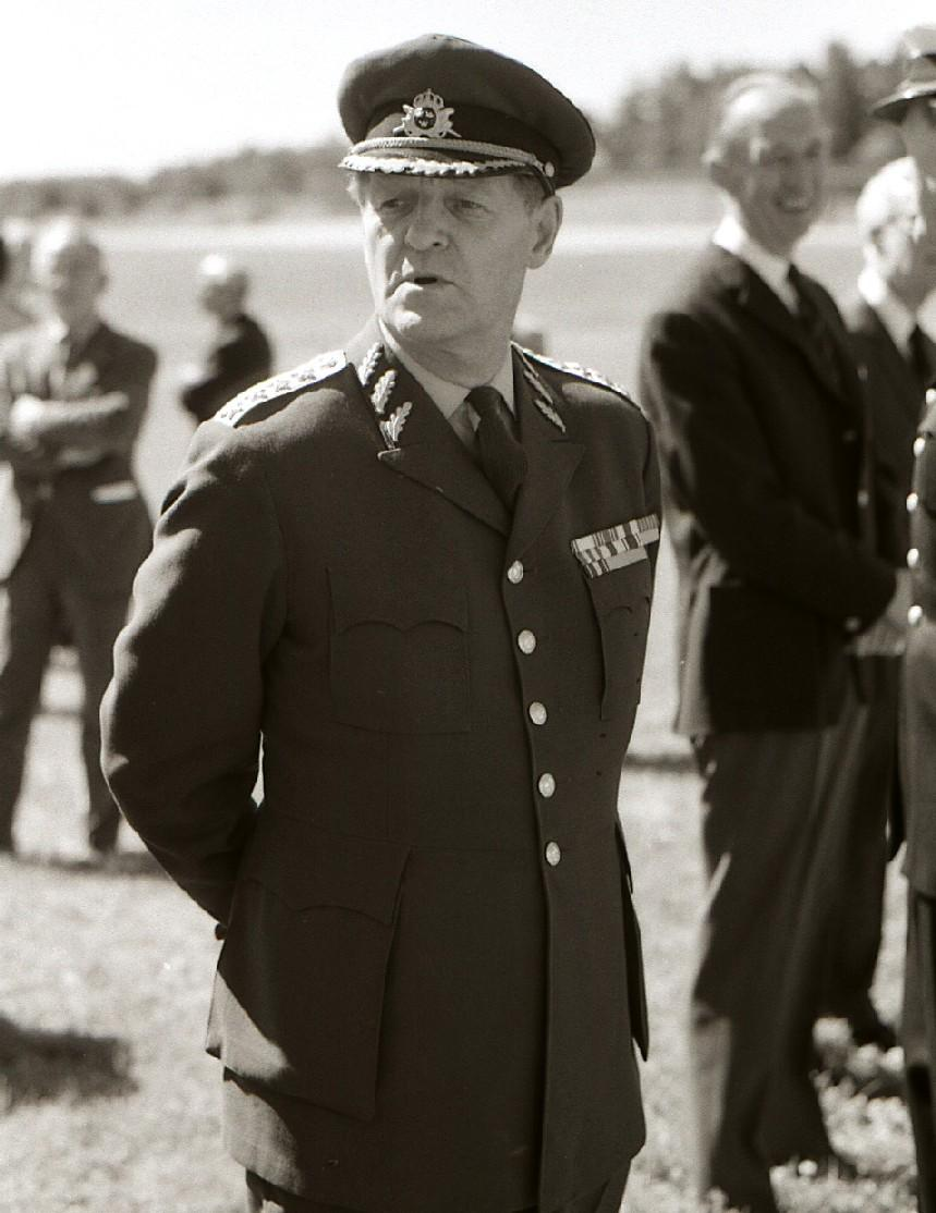 Swedish Army General Stig Synnergren, Supreme Commander of the Swedish Armed Forces 1970-1978